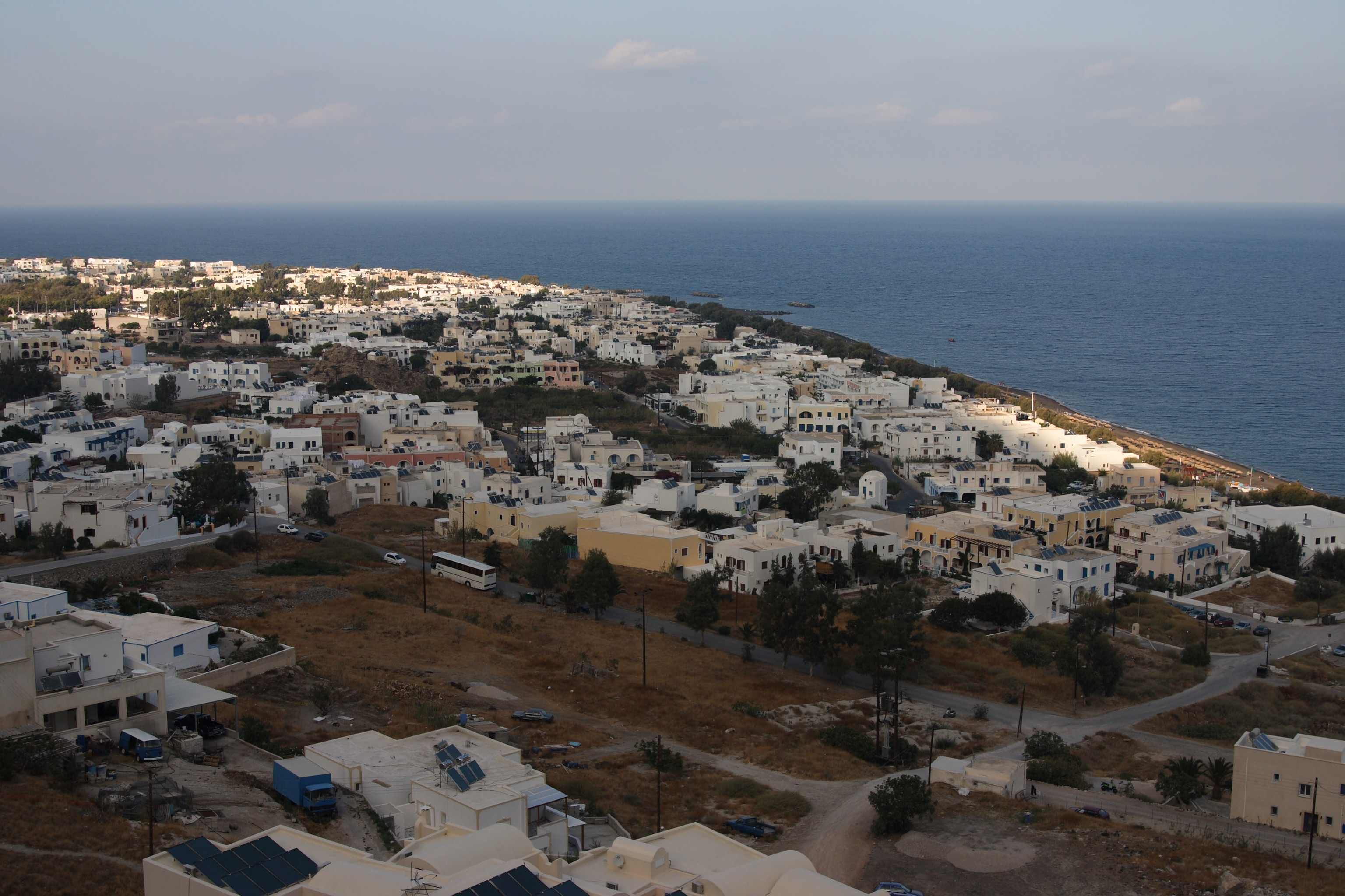 Town of Kamari